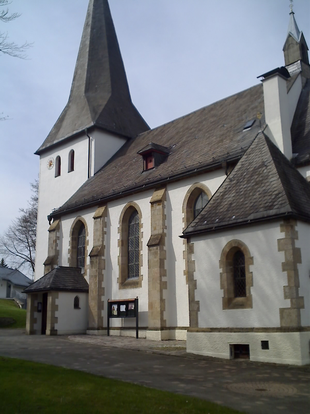 catholic church St. Lambertus in Grönebach (Winterberg, Germany)